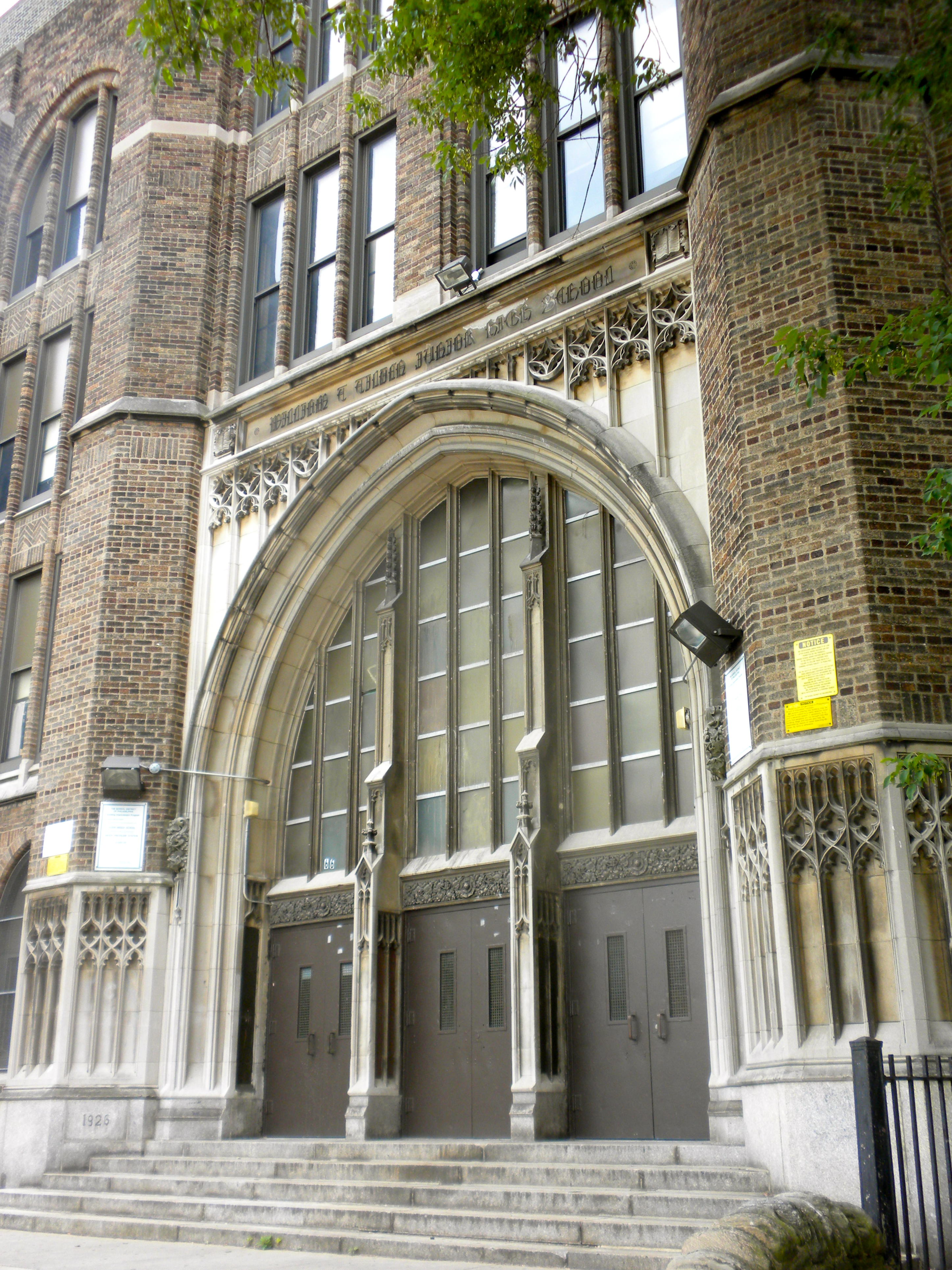 William J. Tilden Junior High Schoolin SW Philadelphia, on the NRHP since December 1, 1986. At 6601 Elmwood Avenue in Paschall neighborhood. Right next to John Bartram HS which is also on the NRHP.